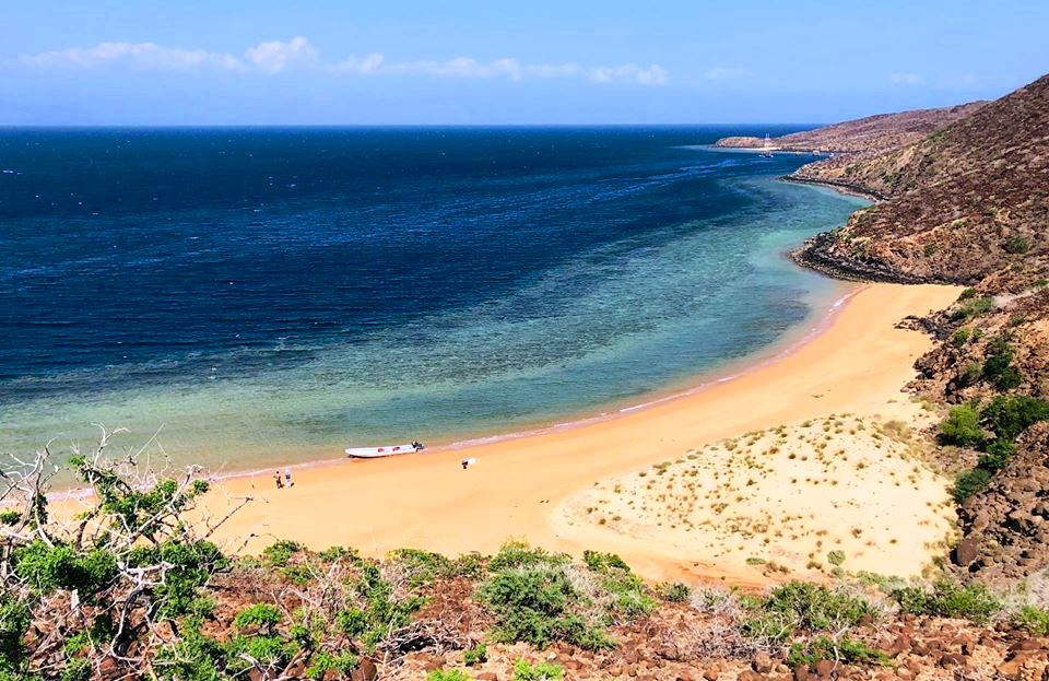 Photo of a Beach on the Gulf of Tadjoura